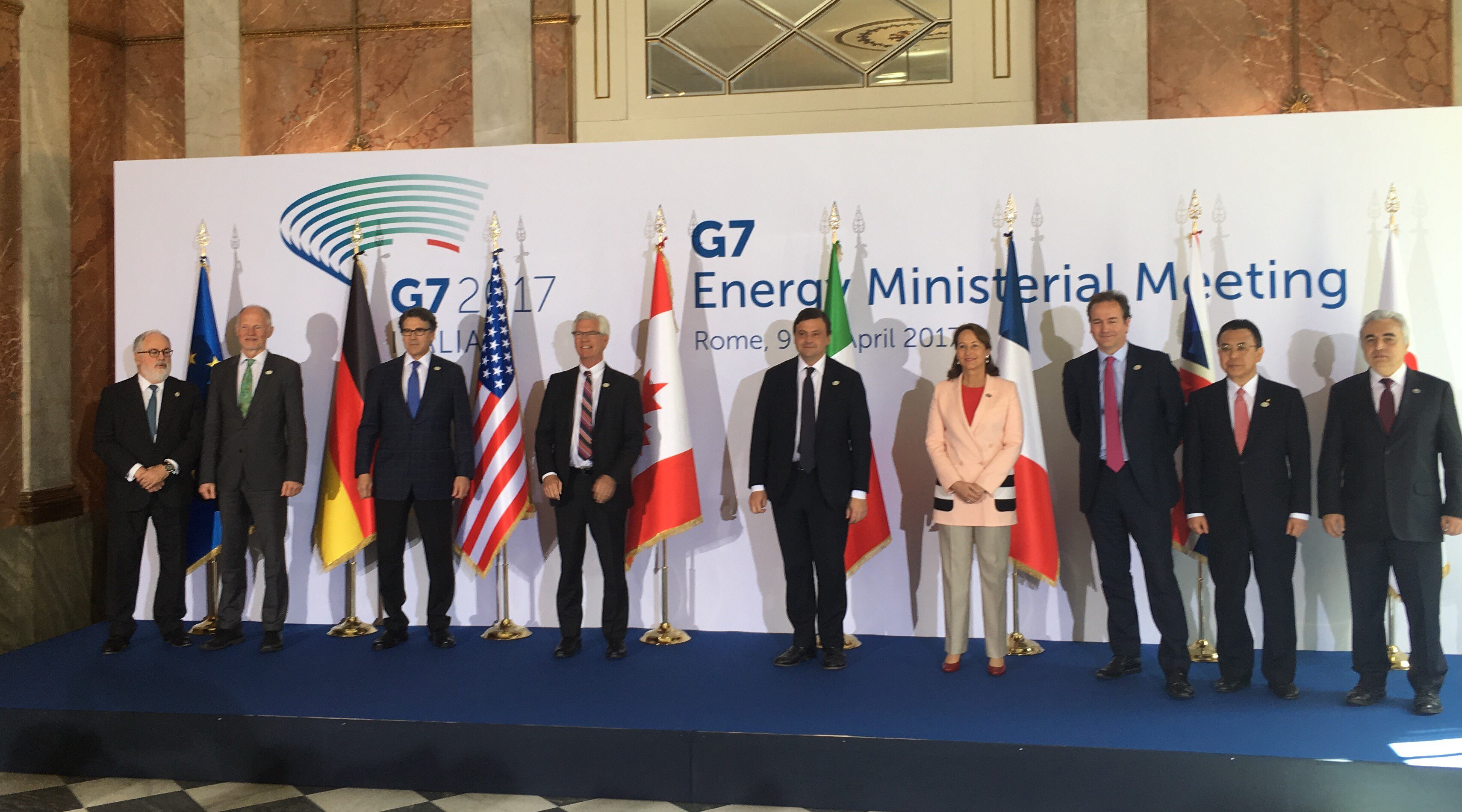 Proud to have led the U.S. delegation at #G7Energy and strengthened international partnerships on energy. #G7ItalyUSA